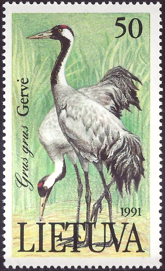 Stamp of Lithuania; 1991; semi-postal stamp of the special issue to the "Red book of Lithuania"; stamp picture of two birds of the species Grus grus with black, vertical, single-line inscription on the left (scientific name (italic characters) + Lithuanian name (normal charcters)): "Grus grus" + "Gervė" Stamp: Michel: No. 490 (LT); Yvert & Tellier: No. 421 (LT); AFA: No. 482 (LT); PZ: No. 34 Color: multicolored Nominal value: 50 (Kopekų) Postage validity: from 21 November 1991 until 30 September 1992 date QS:P,+1991-00-00T00:00:00Z/8,P580,+1991-11-21T00:00:00Z/11,P582,+1992-09-30T00:00:00Z/11 Stamp picture size: 32.8 x 55 mm